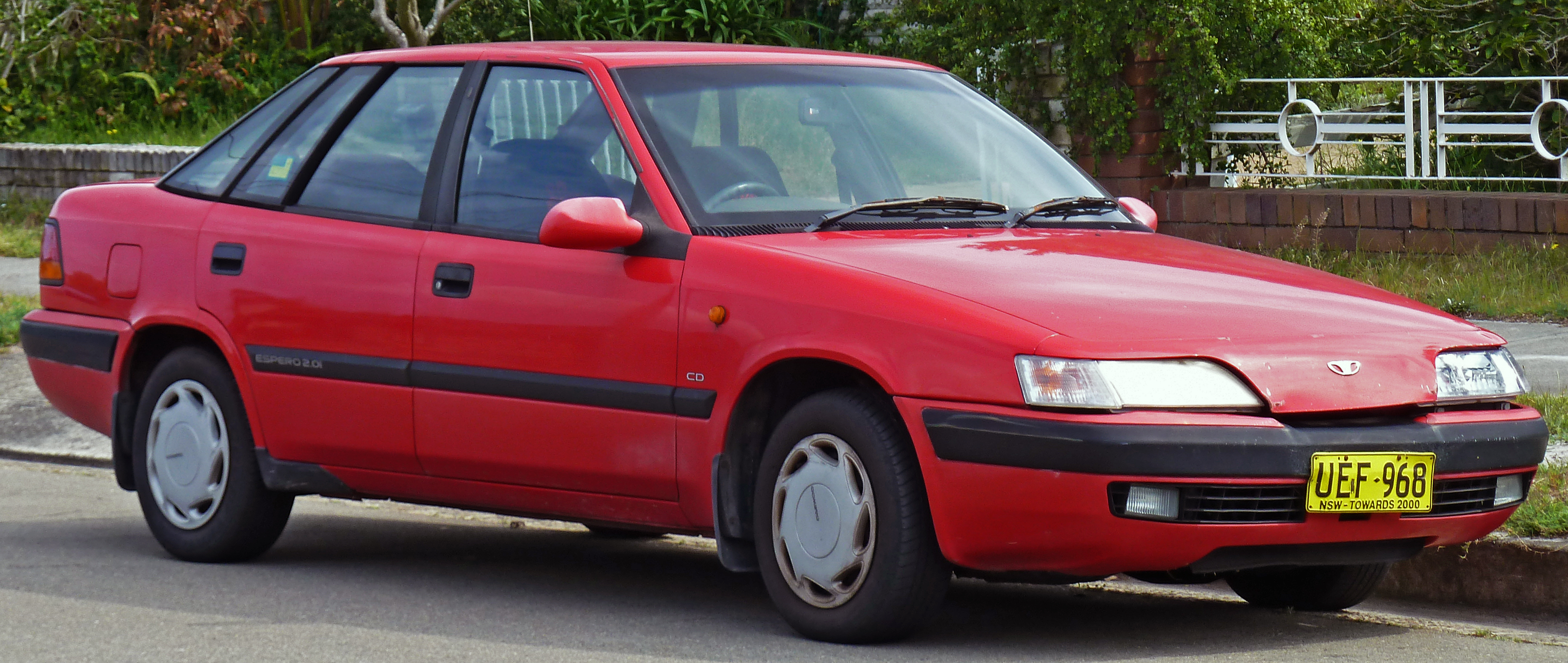 1996 Daewoo Espero CD sedan. Photographed in Sandringham, New South Wales, Australia.